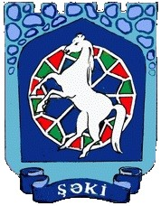 Coat of arms of Shaki (town of Azerbaijan)